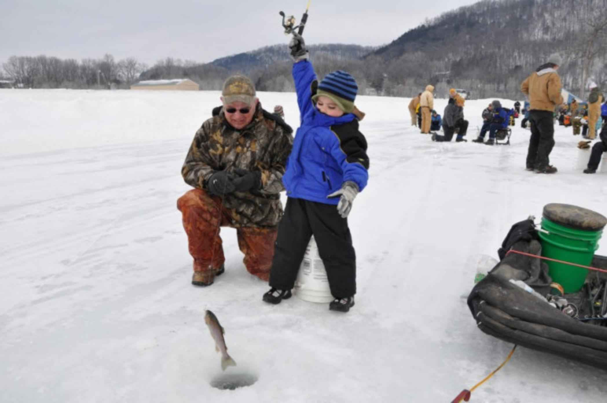 Image title: Young boy with father enjoys winter ice fishing Image from Public domain images website